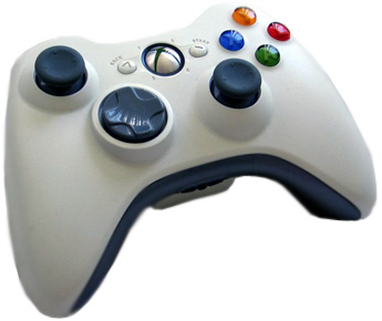 Picture of Xbox 360 wireless controller